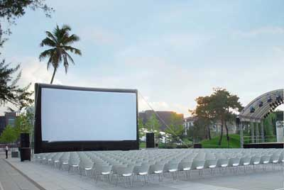 mobile screen (AIRSCREEN)